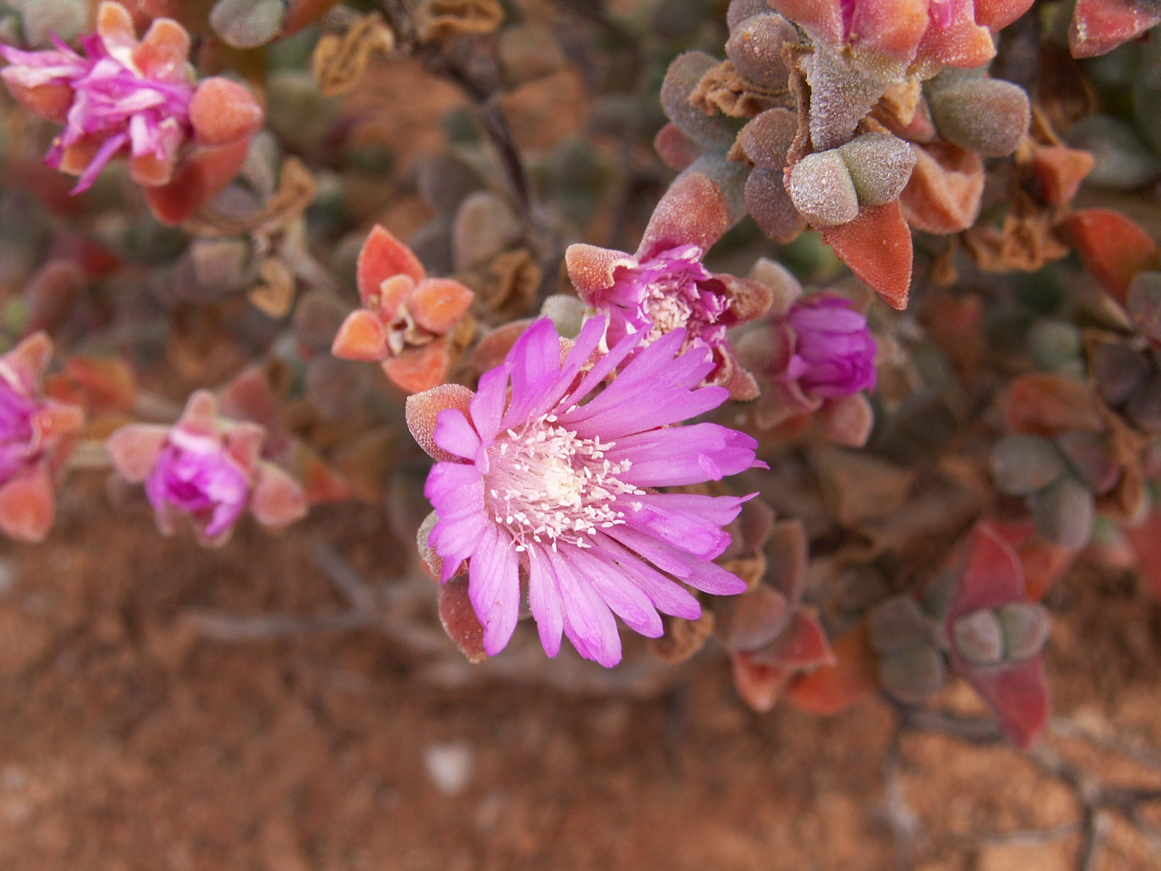 Unidentified Aizoaceae, Succulent Karoo, Quartz fields, Landscapes of South Africa, Matzikama Local Municipality, West Coast District Municipality, Western Cape Province of South Africa